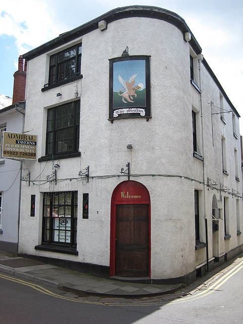 The Griffin public house Dates from the 18th century when it was known as the Old Griffin. It was rebuilt in the 1830s. Business up for sale at the time the photograph was taken.